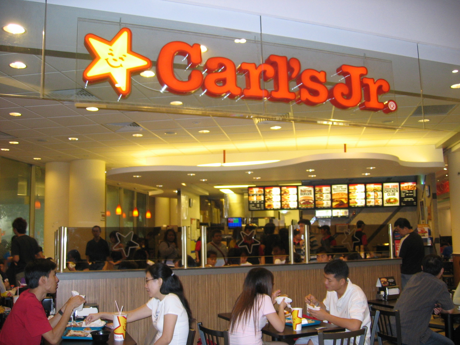 A Carl's Jr restaurant at Marina Square, Singapore.